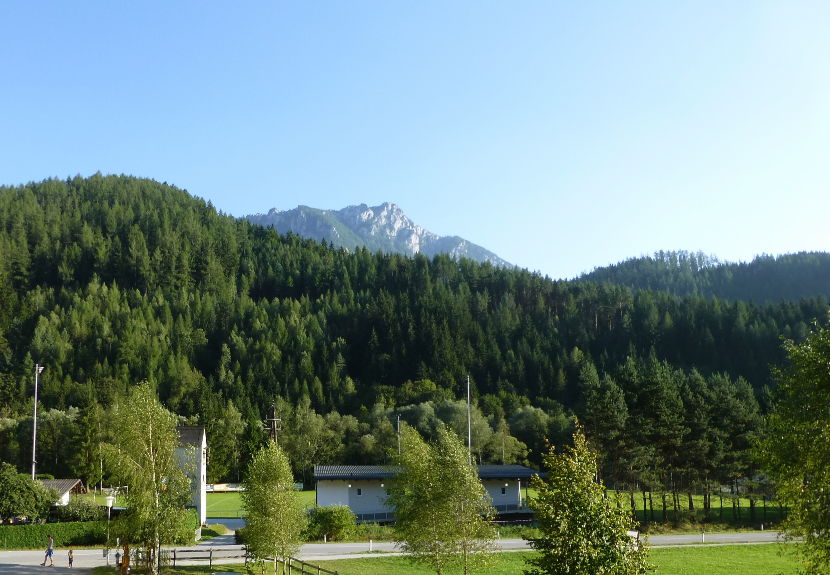 Hochlantsch (1720 m), seen from Breitenau at 3 km. Afternoon in August.